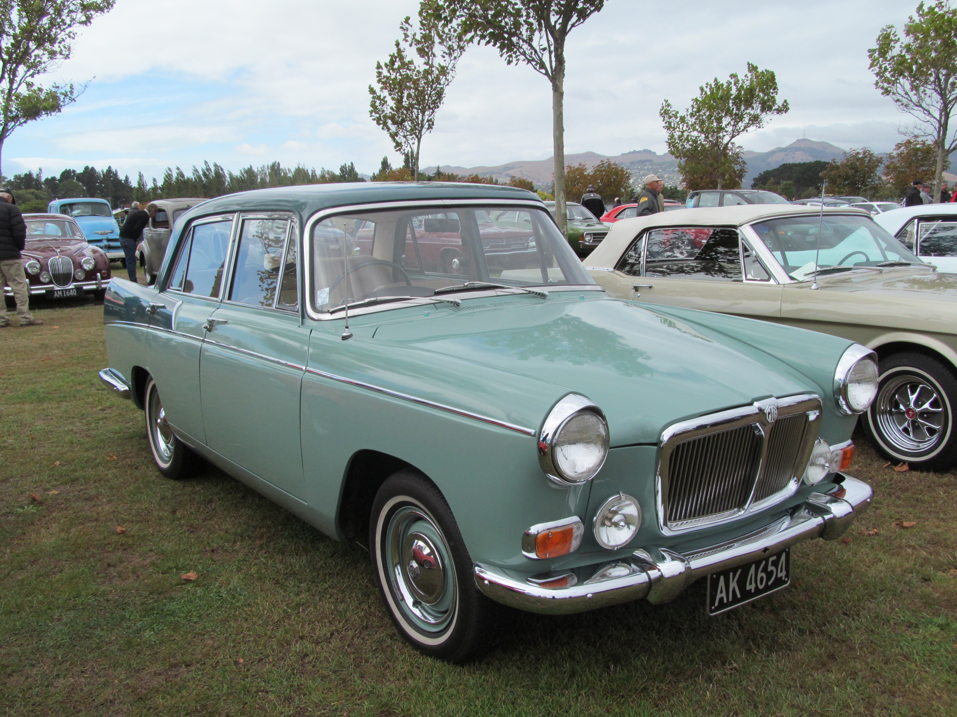 A very rare Farina variant here, second only to perhaps the Riley 4/72 in the rarity stakes. I always thought the MG grille suited this shape well.